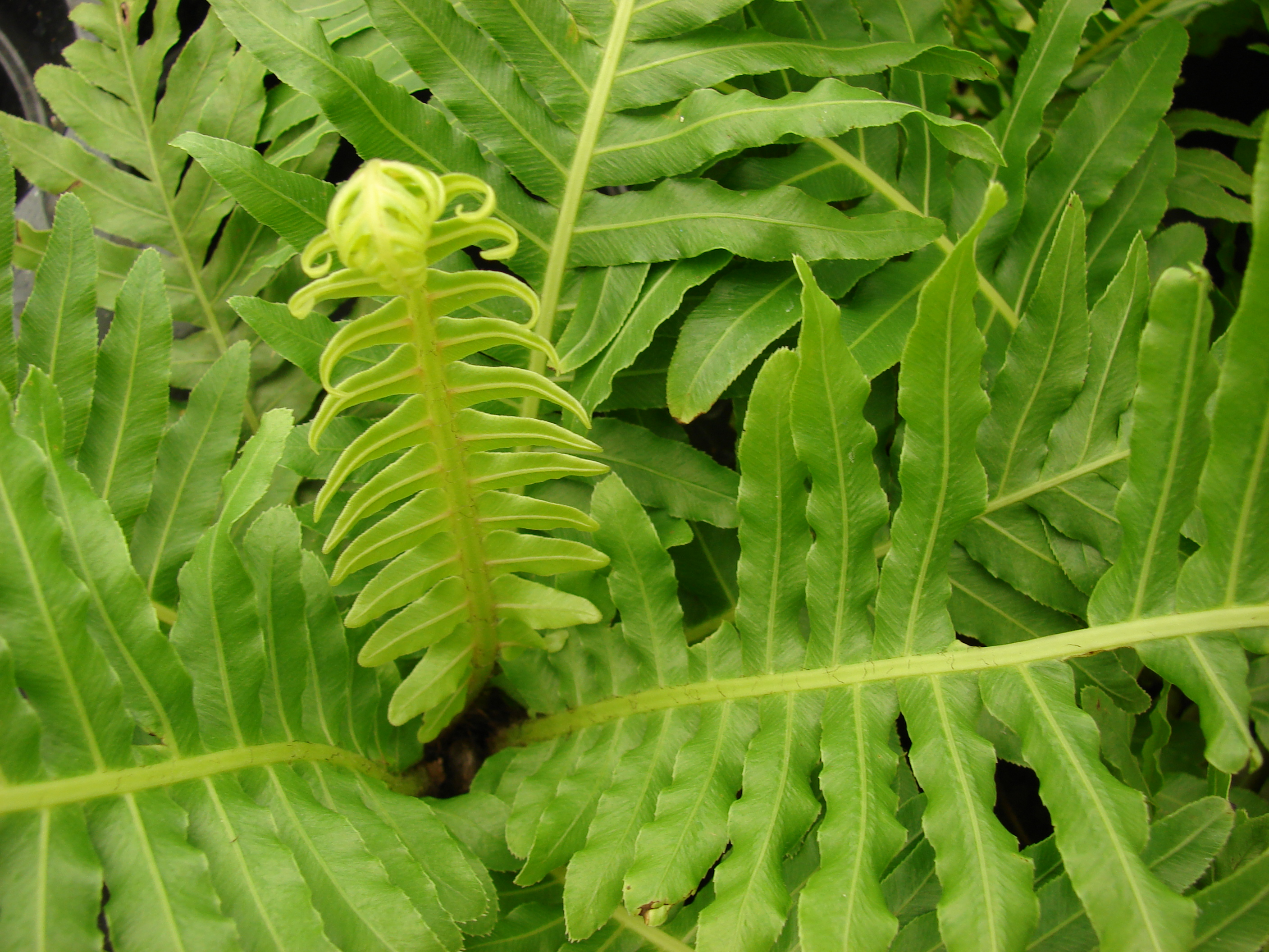 Blechnum gibbum (habit). Location: Maui, Walmart Kahului